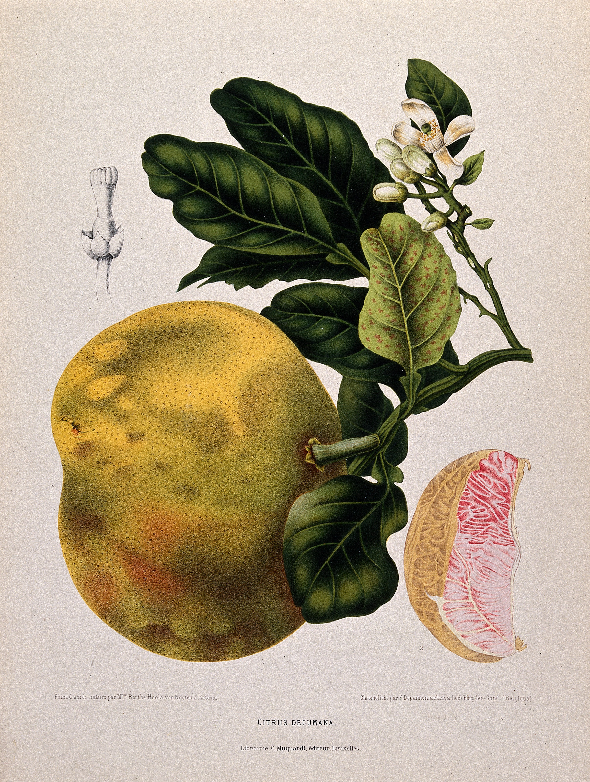 Pummelo or Pamplemousse (Citrus maxima (Burm.) Merr.): flowering and fruiting branch with numbered fruit segment and flower section. Chromolithograph by P. Depannemaeker, c. 1885, after B. Hoola van Nooten. Iconographic Collections Keywords: Berthe van Nooten Hoola; Pierre Joseph Depannemaeker; botany - java (indonesia); chromolithographs; pummelo; tropical fruit; island flora; Rutaceae; plants, edible - java (indones; scientific illustrations